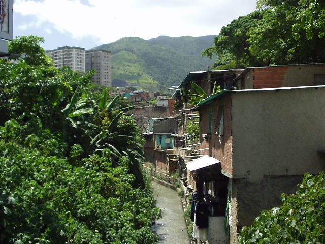 Anauco River. Libertador Municipality, Distrito Capital (Caracas), Venezuela. Northward from the Panteon Avenue.